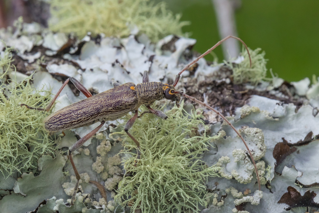 Lemon tree borer (Oemona hirta) and lichen by Shaun Lee